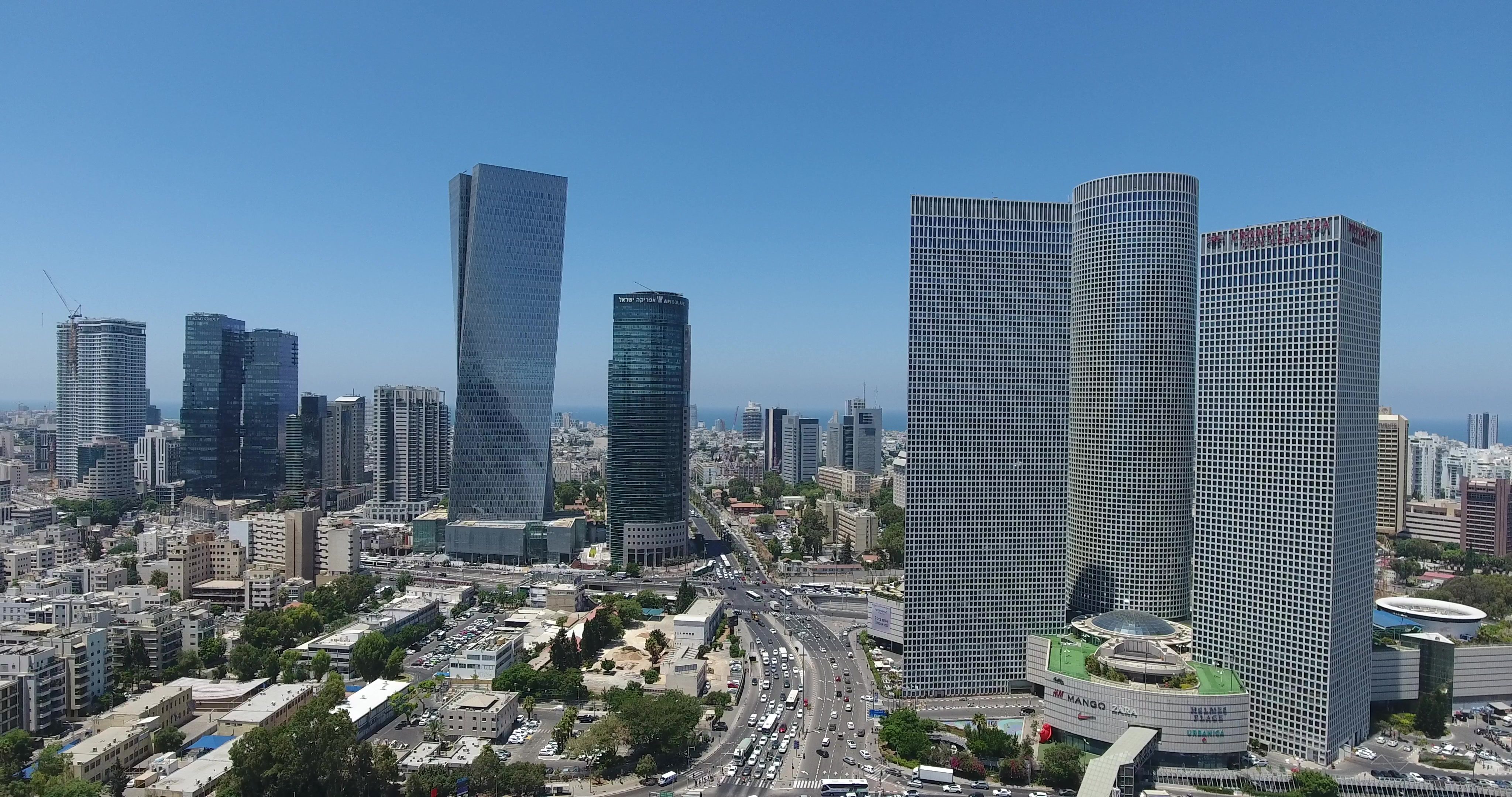 Azrieli Towers, HaKiria tower and Sarona tower, Tel Aviv, july 2019